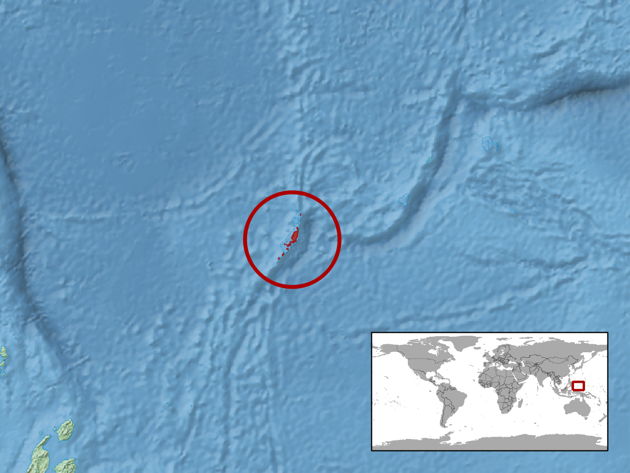 geographic distribution of Gehyra brevipalmata (Native: Palau)